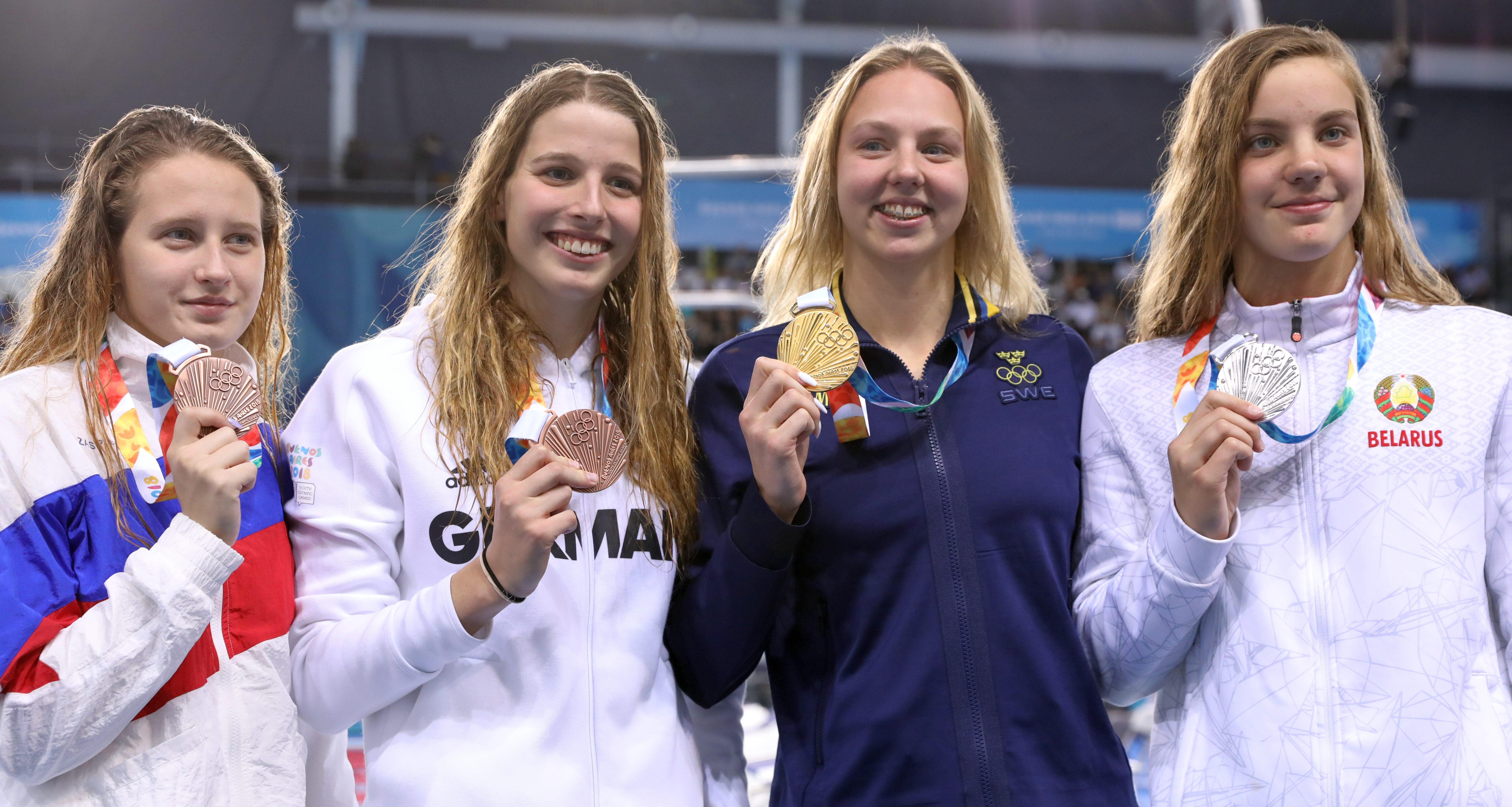 Girls' Swimming, 50 m Butterfly Final at the 2018 Summer Youth Olympics in Buenos Aires at the 10th October 2018